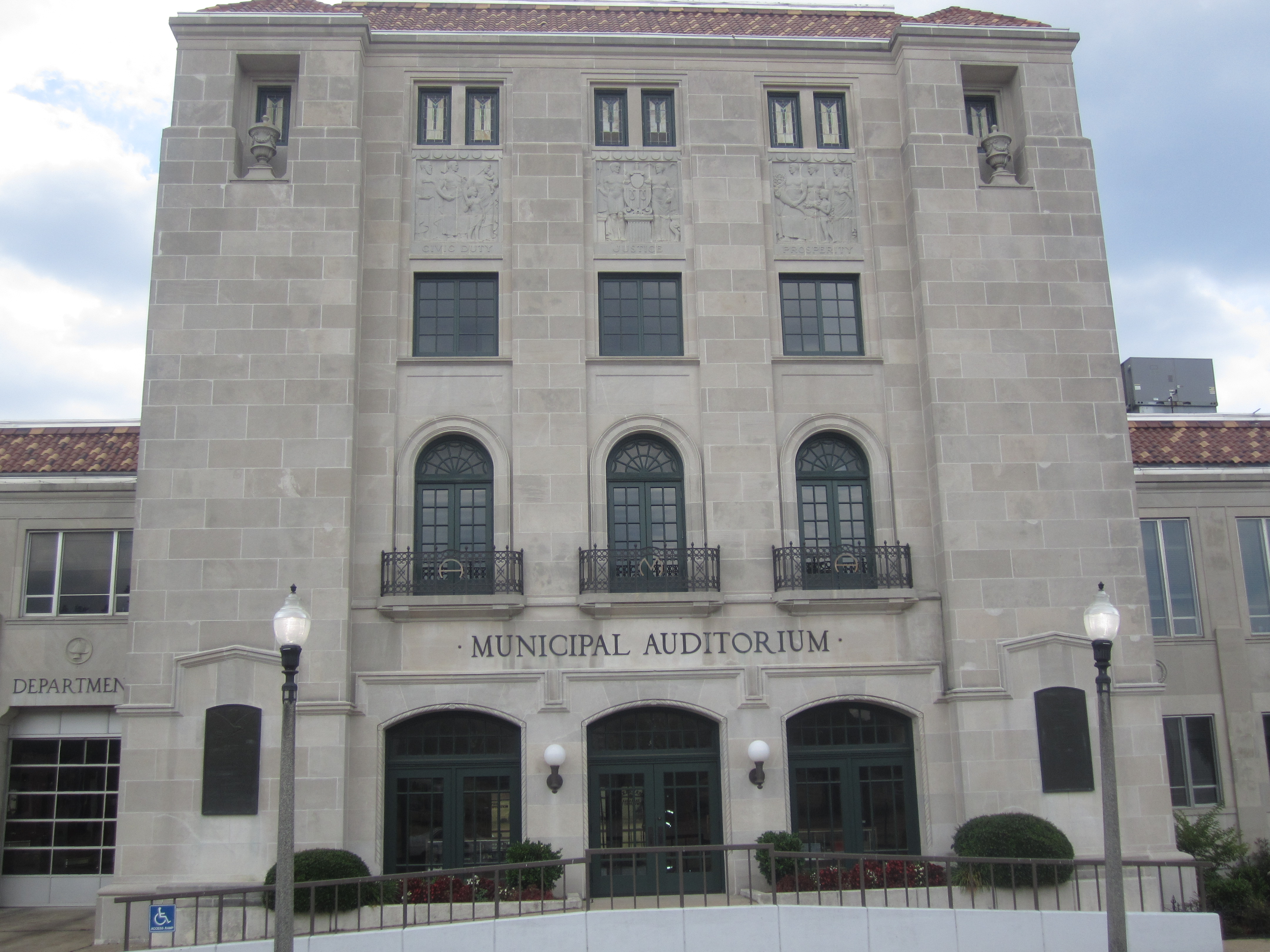 I took photo with Canon camera on June 9, 2012, of Municipal Auditorium in Texarkana, AR.